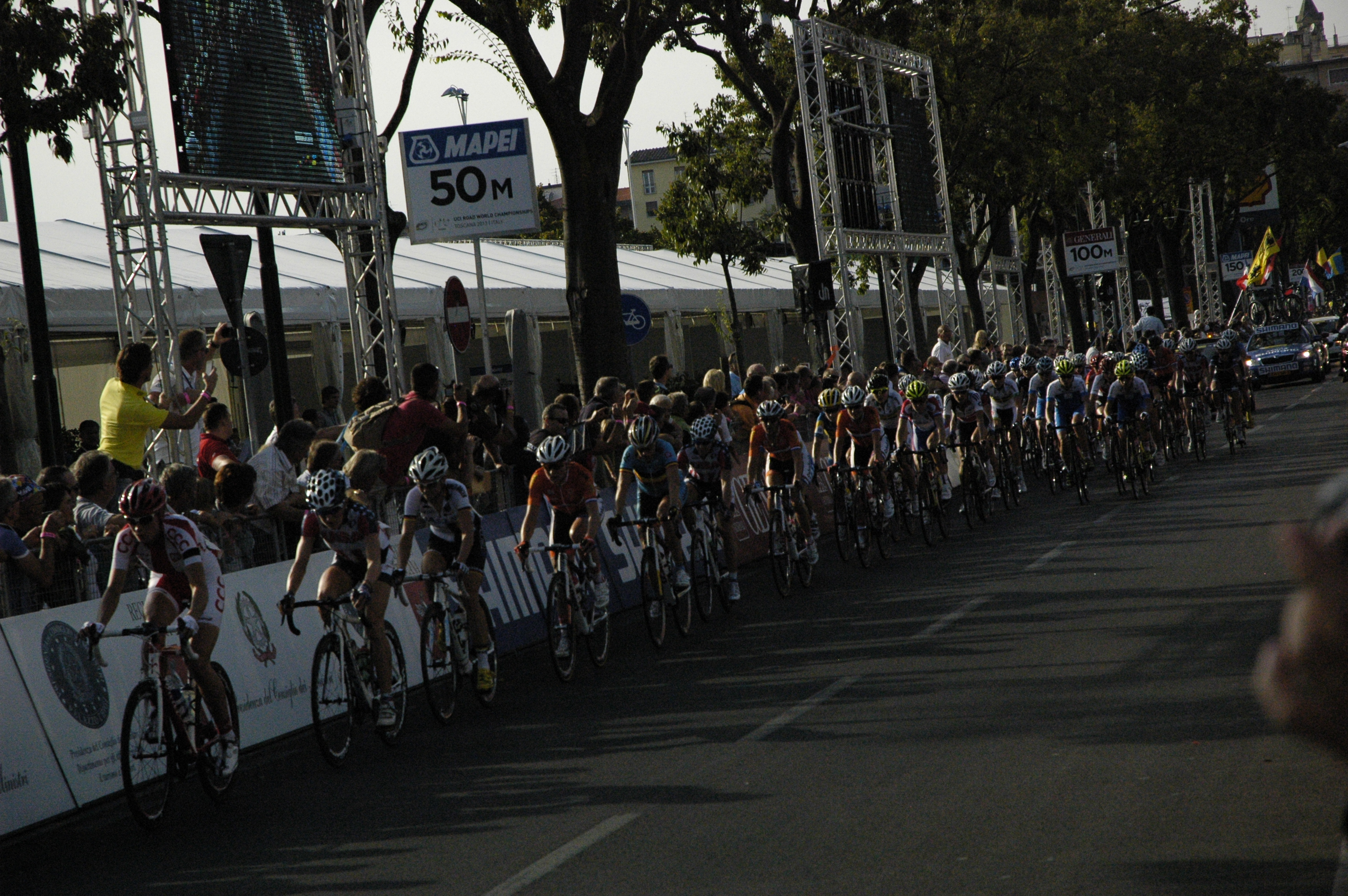 2013 UCI Road World Championships – Women's road race